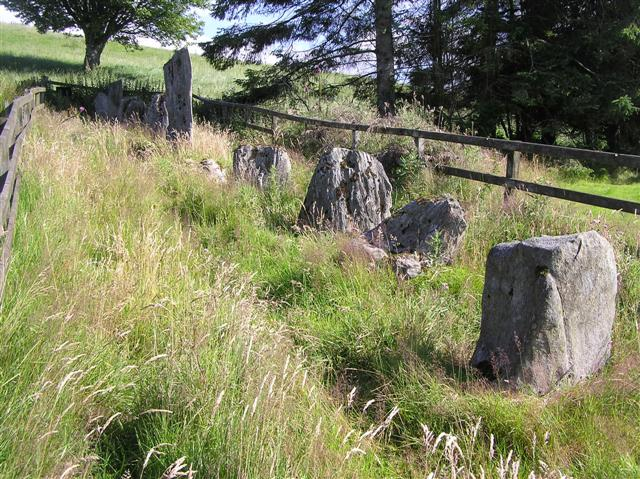 Goles Stone Row The Goles Alignment/Stone Row consists of eleven individual upright stones, orientated north-south and arranged in a straight line measuring some 16 metres in length They date from the early Bronze Age and are believed to be associated with rituals to observe the rising moon.